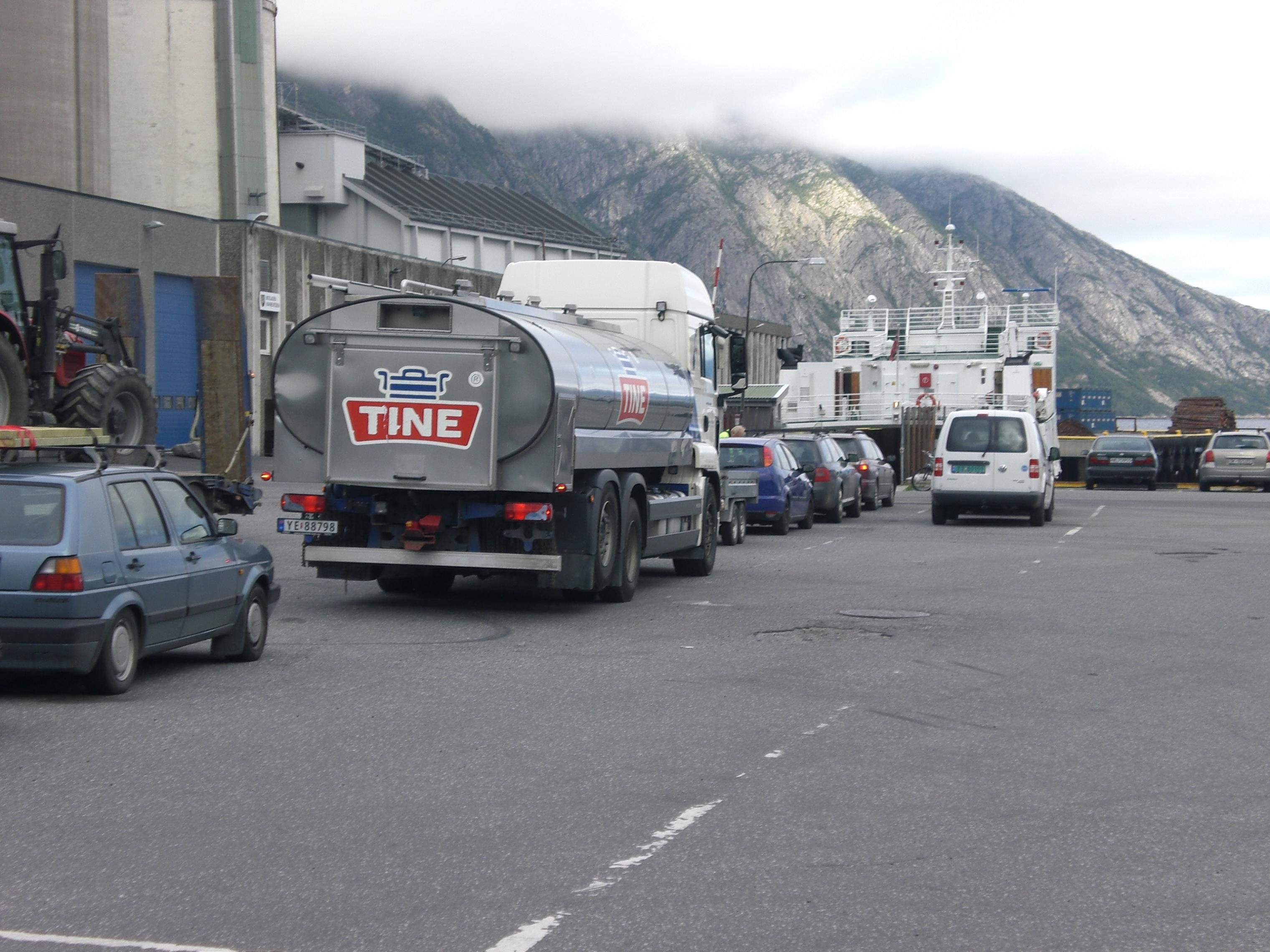 Port and ferry quay in Mosjøen, Norway. «Rana»